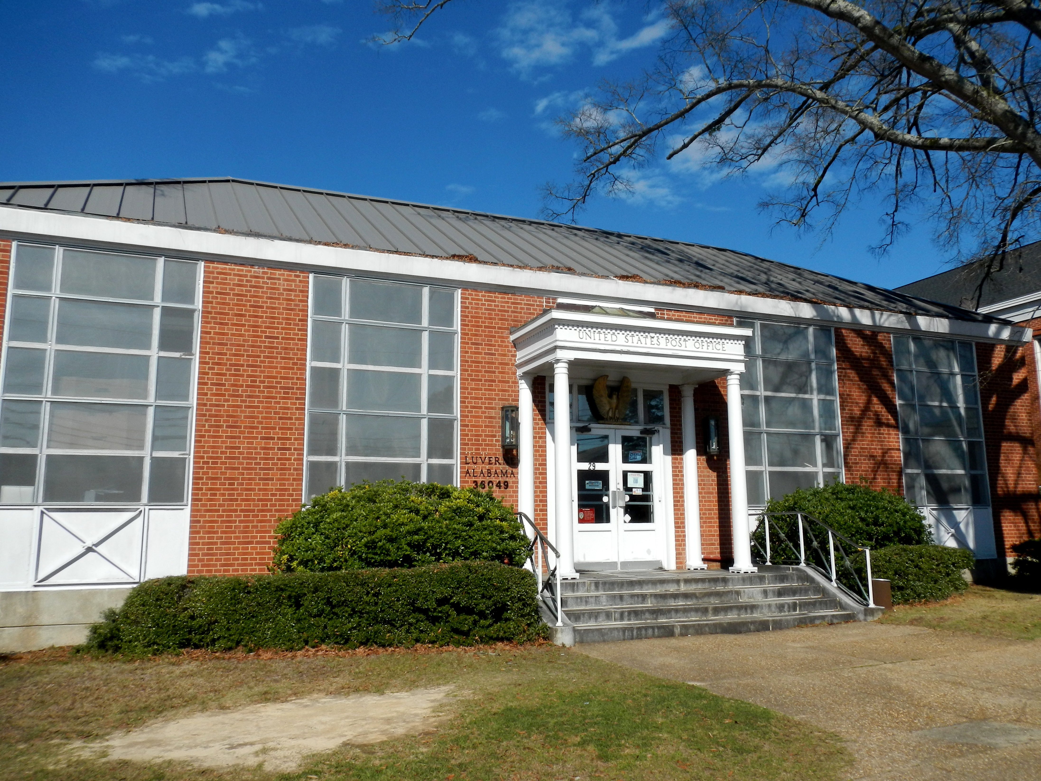 This is a photograph of the Luverne Post Office in Luverne, Alabama.